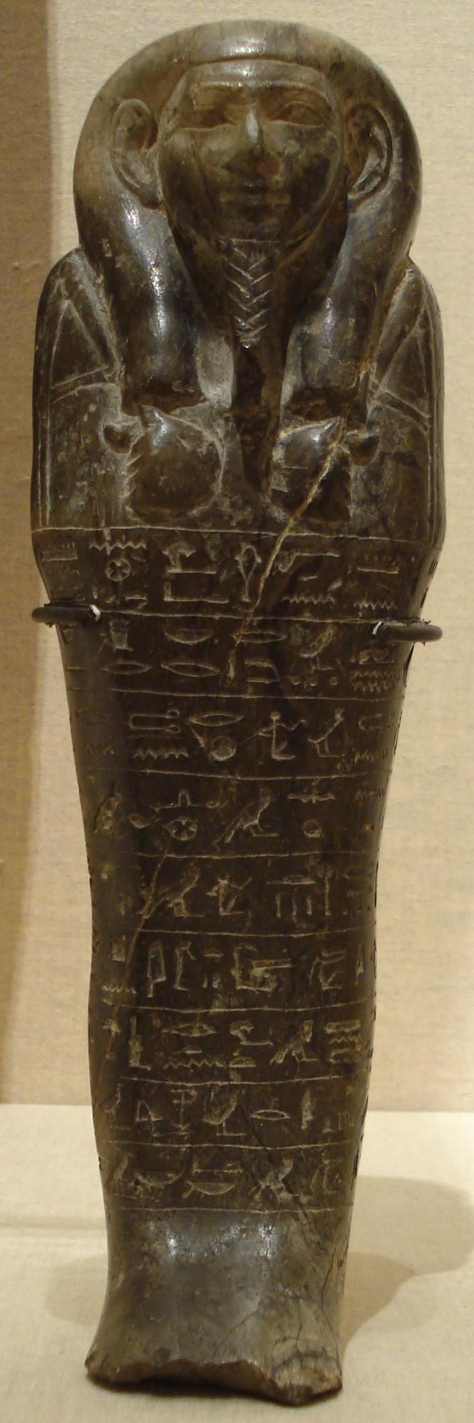 Funerary figurine of Montuemhat. Steatite. End of Third Intermediate Period, Dynasty XXV or XXVI, c. 670-650 BC. From Thebes.